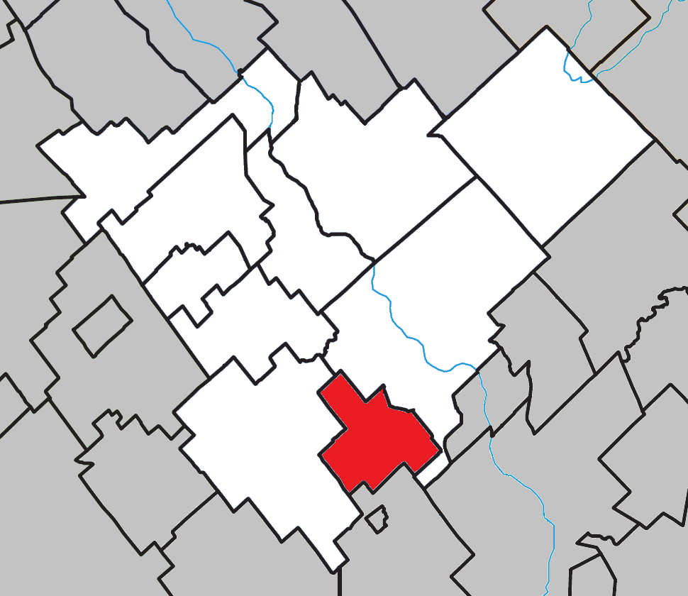 Location of Saint-Alfred, Quebec within Robert-Cliche Regional County Municipality.